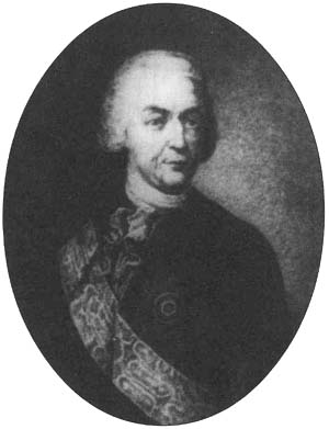 Portrait of Ivan Neplyuyev (1693-1773).